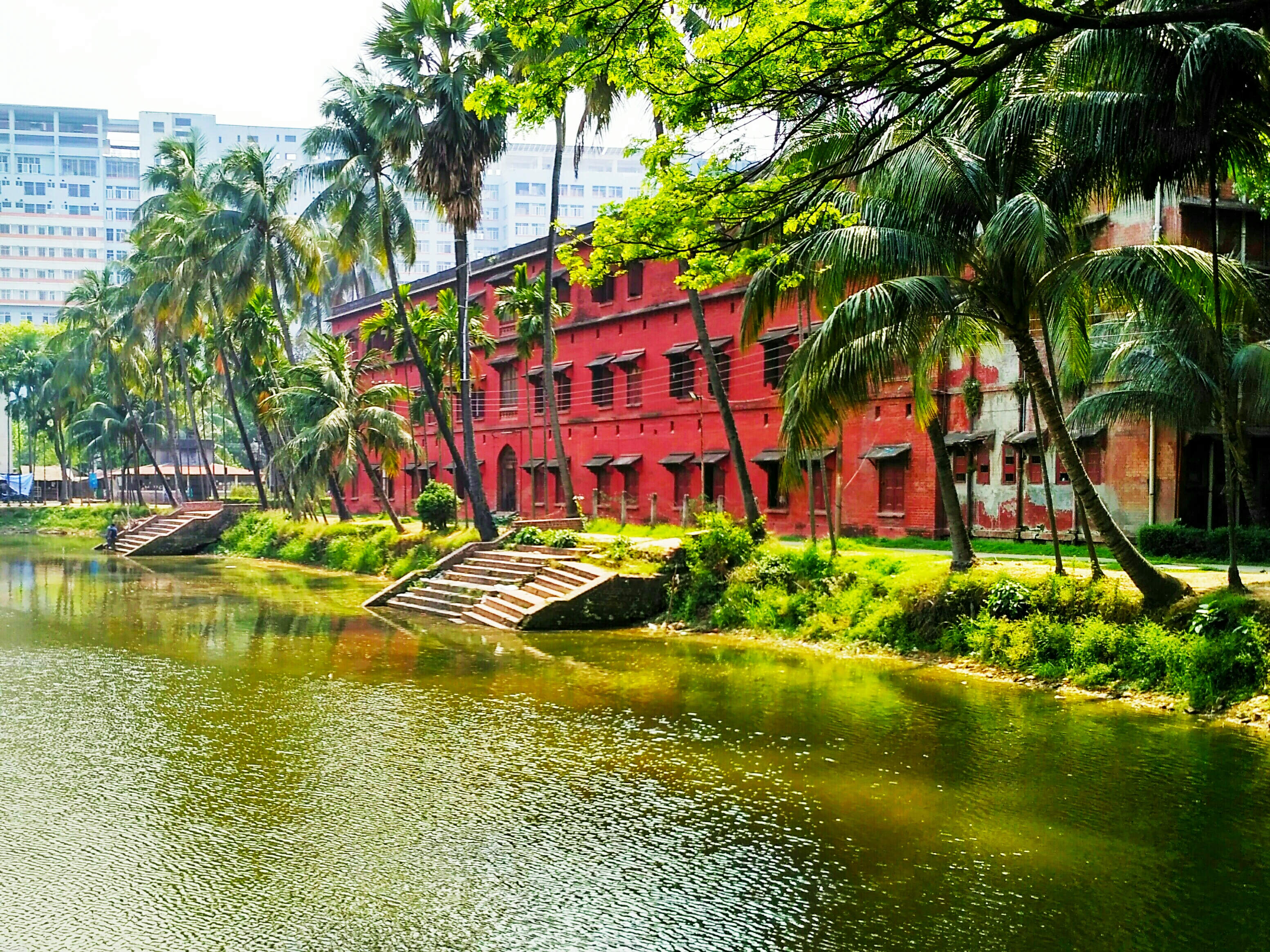 View of Dr. Muhammad Shahidulla Hall, Dhaka University at the west side of the pond. (29.03.2019)